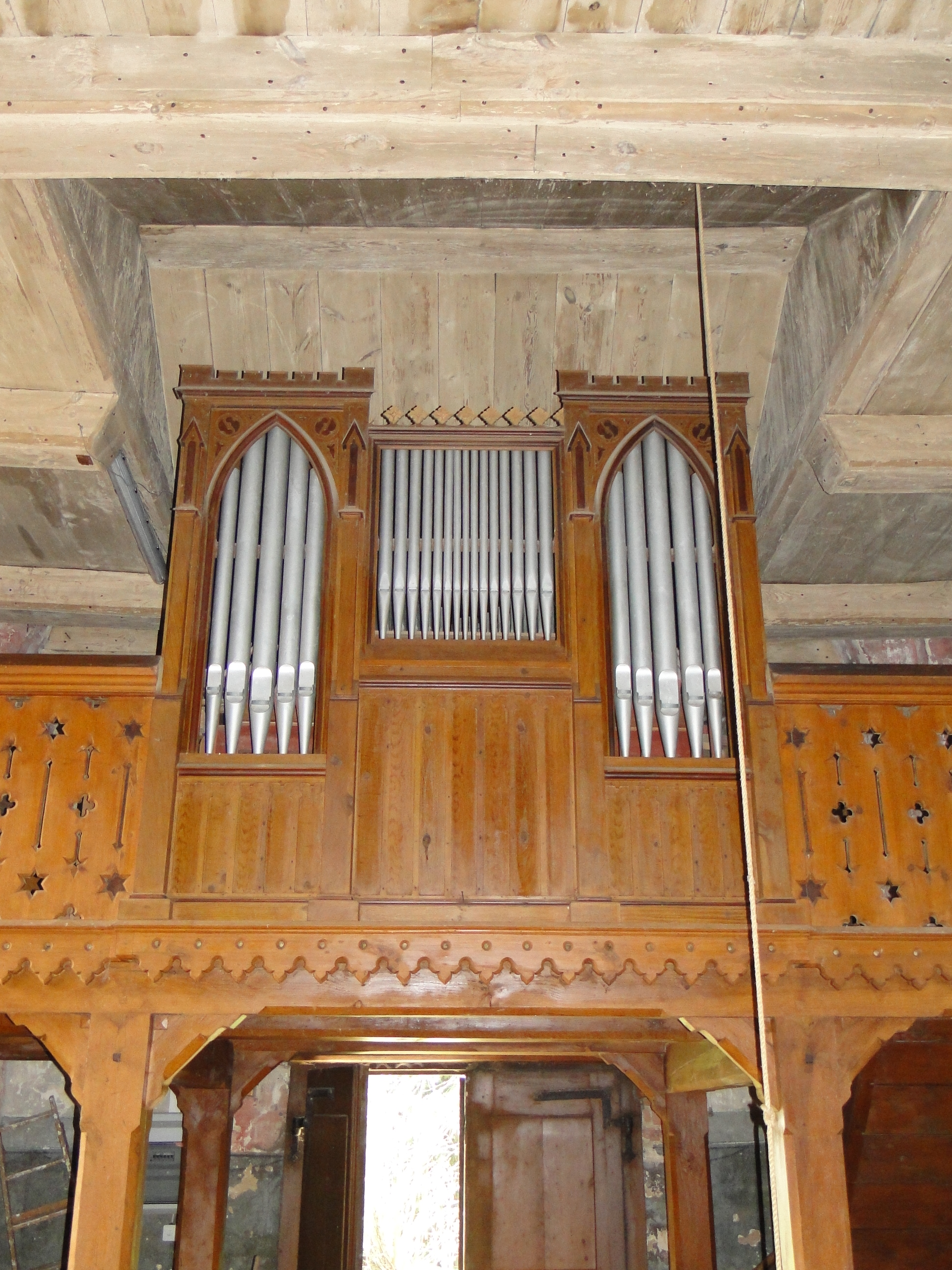 Church in Holzendorf (near Sternberg), distrct Ludwigslust-Parchim, Mecklenburg-Vorpommern, Germany